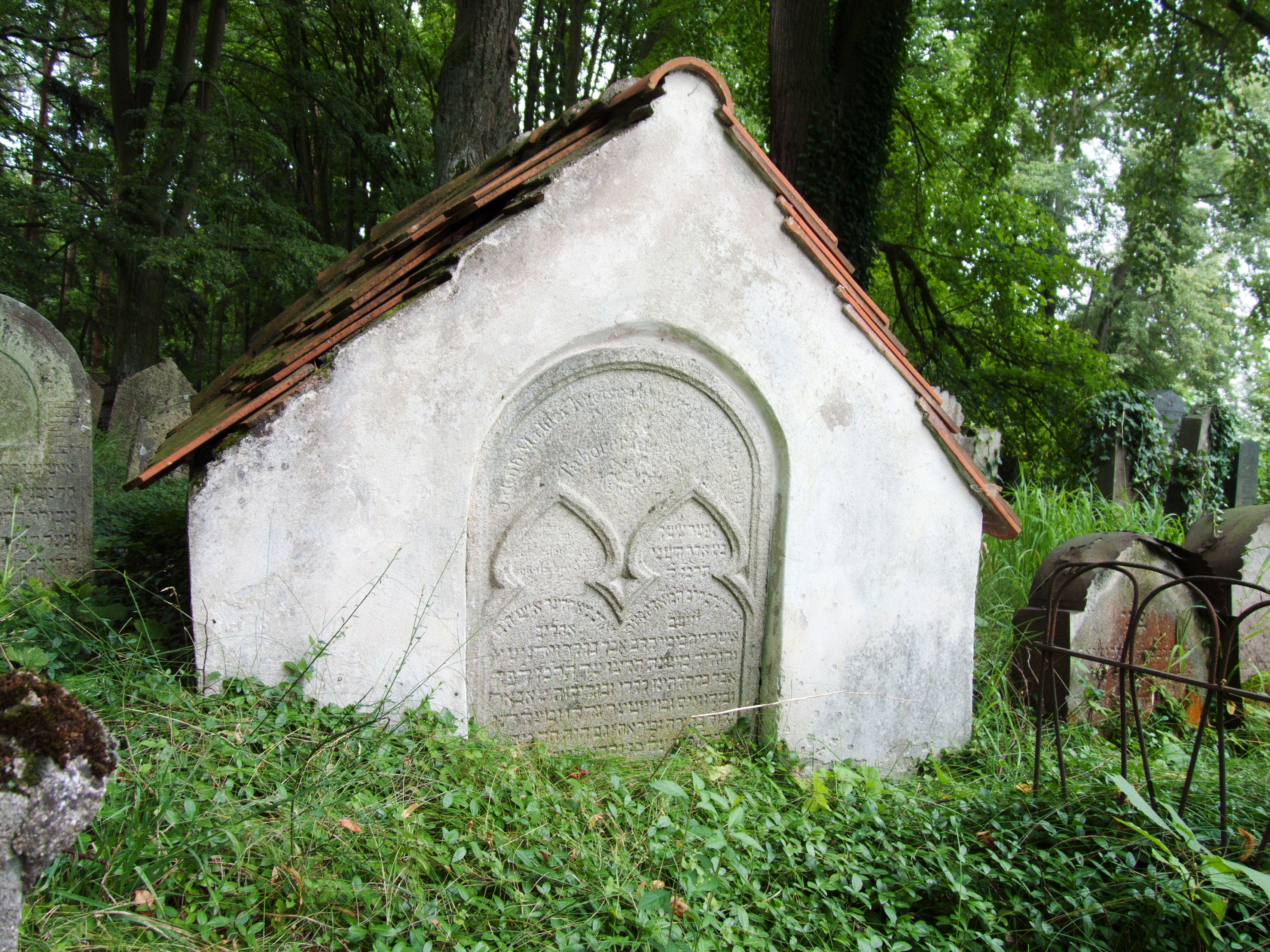 Unusual tomb of Jacob Mahler, regional rabbi, in the Jewish cemetery at the village of Koloděje nad Lužnicí, České Budějovice District, Czech Republic